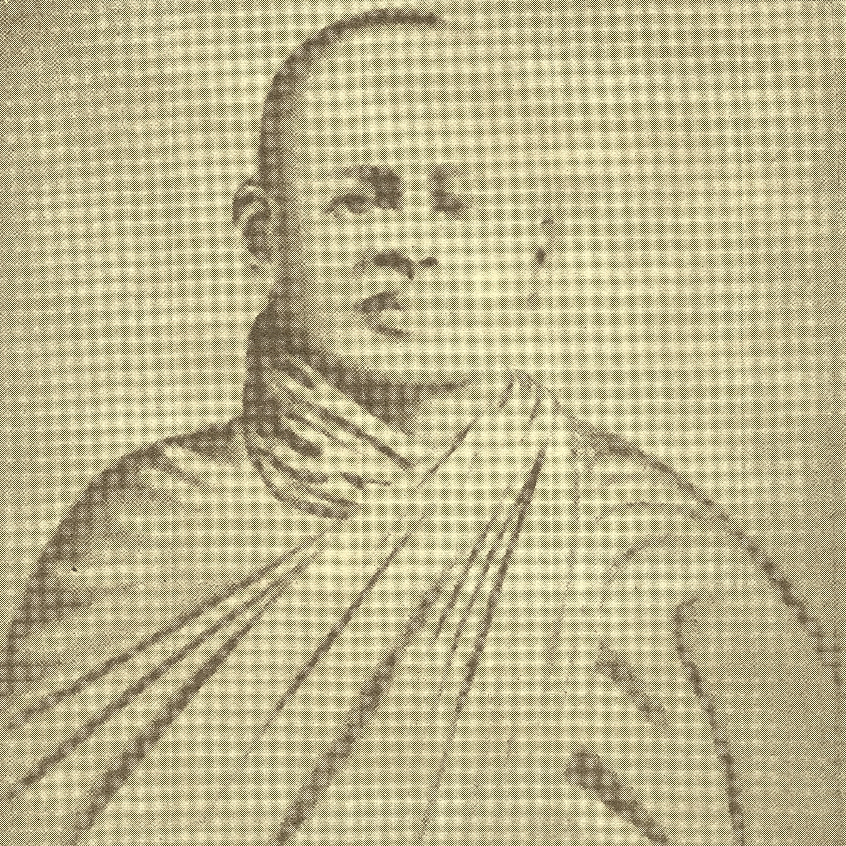 Most Venerable Walitota Sri Gnanawimalatisssa Maha Thera (1766-1833),(The Founder of Amarapura Nikaya) සිංහල: ශ්‍රි ලංකා අමරපුර මහා නිකායයෙහි ආදි කර්තෘ බෝධිසත්ව ගුණෝපේත වැලිතොට ශ්‍රී ඥානවිමලතිස්ස මහානායක මාහිමිපාණන්වහන්සේ